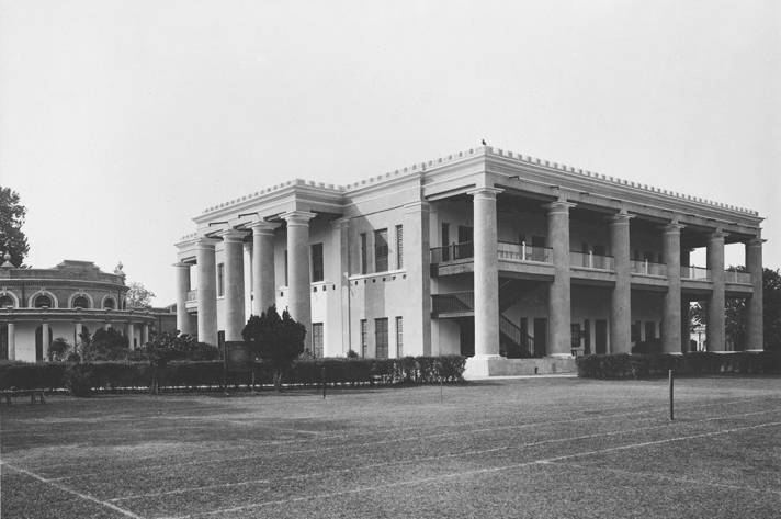 Photograph taken by Fritz Kapp in 1904 with a view of Dacca College from the tennis courts in Dacca (now Dhaka), part of an album of 30 prints from the Curzon Collection.